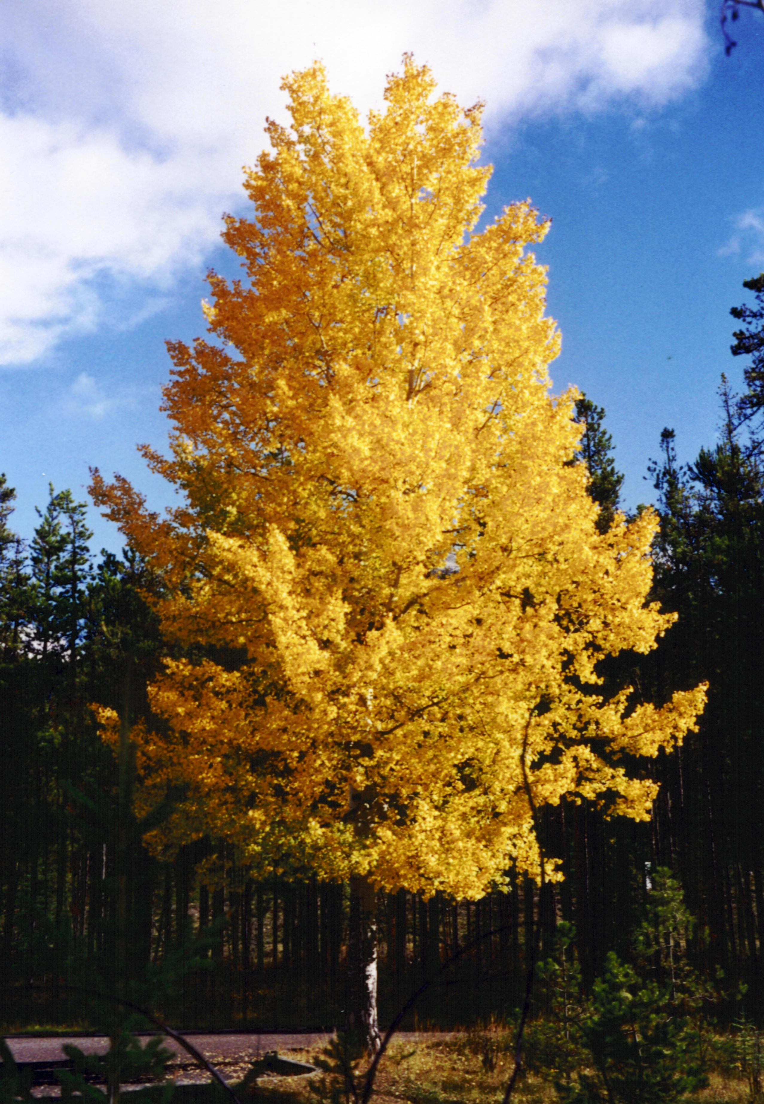 Photo of Aspen tree (Populus tremuloides) showing autumn foliage , Jasper National Park, Alberta, Canada